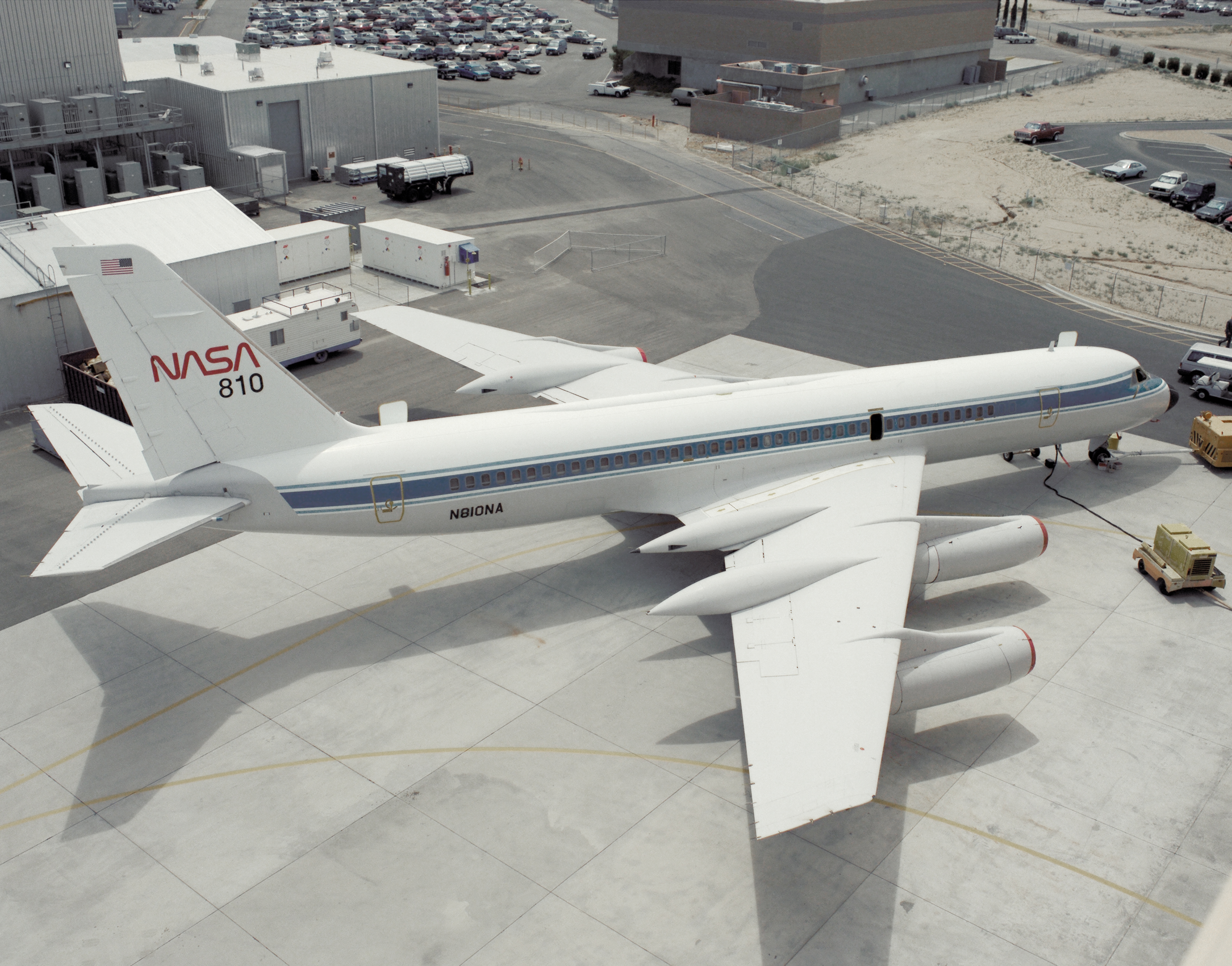 Convair CV 990 (NASA 810) displaying anti-shock bodies on the top surface of its wings as it sits on the ramp at NASA's Dryden Flight Research Center, Edwards, California. When the photo was taken the aircraft was used as a Landing Systems Research Aircraft (LSRA) to test the space shuttle landing gear system.